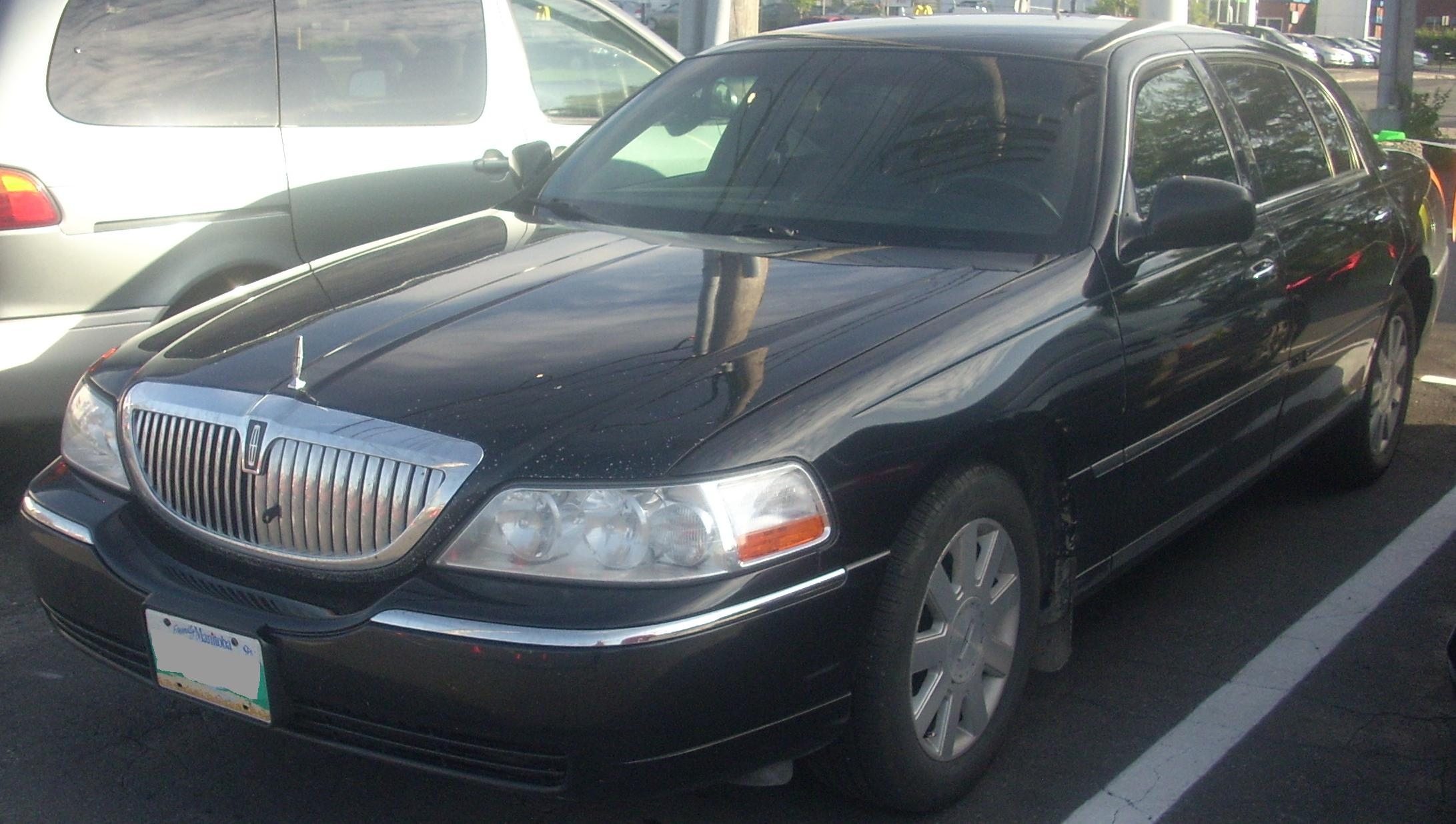 2003-present Lincoln Town Car photographed in Montreal, Quebec, Canada at Gibeau Orange Julep.